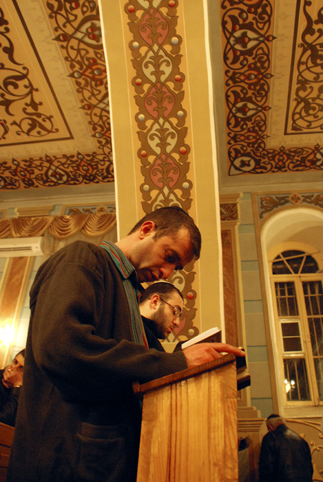 The Synagogue in Tbilisi Georgia